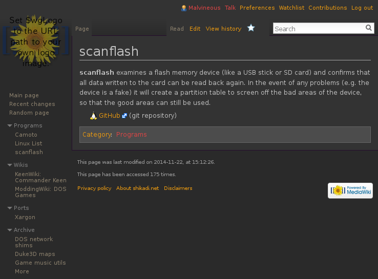 Screenshot of Skin:Vector-DarkCSS